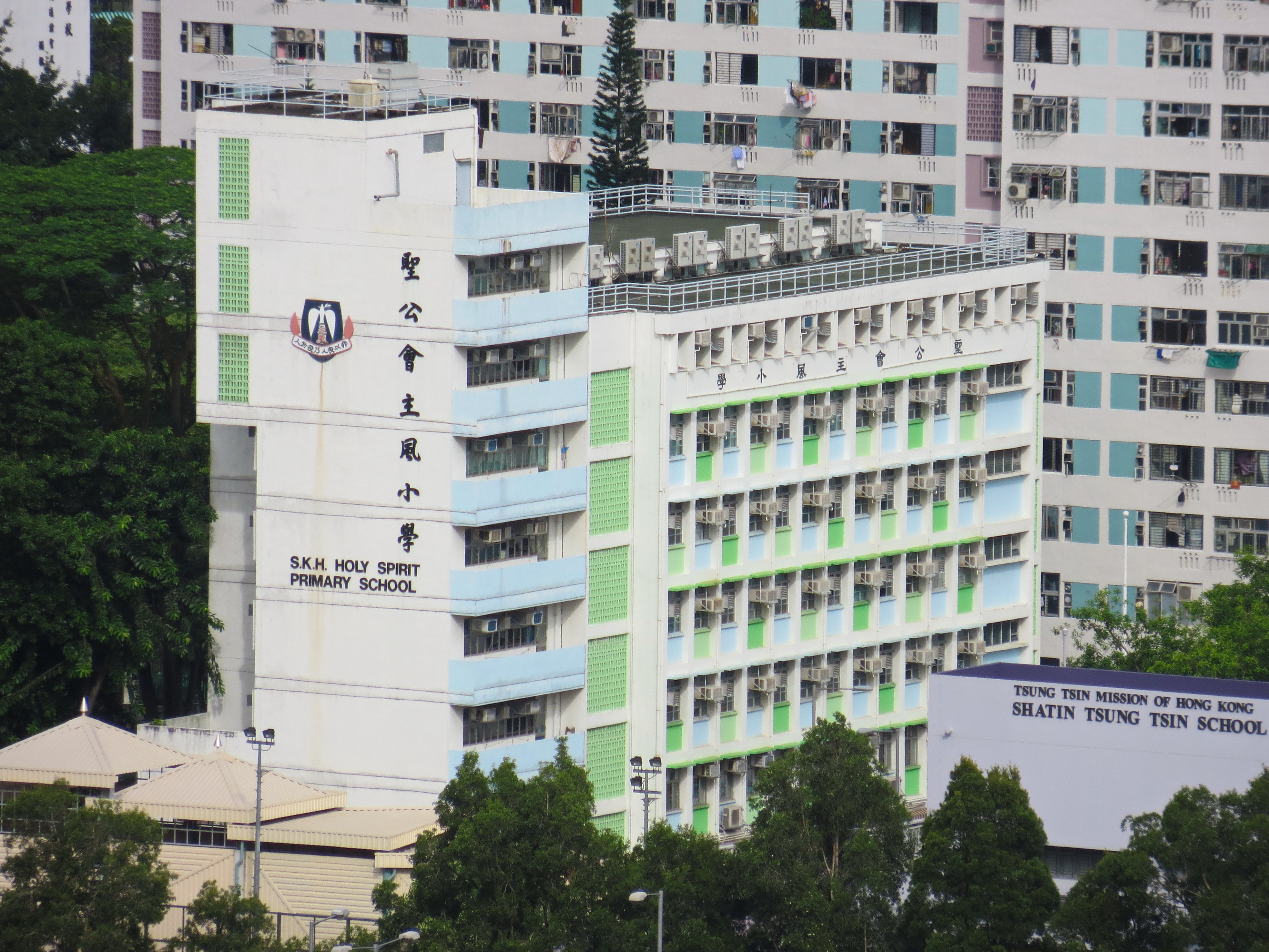 S.K.H. Holy Spirit Primary School, Sha Tin, Hong Kong.